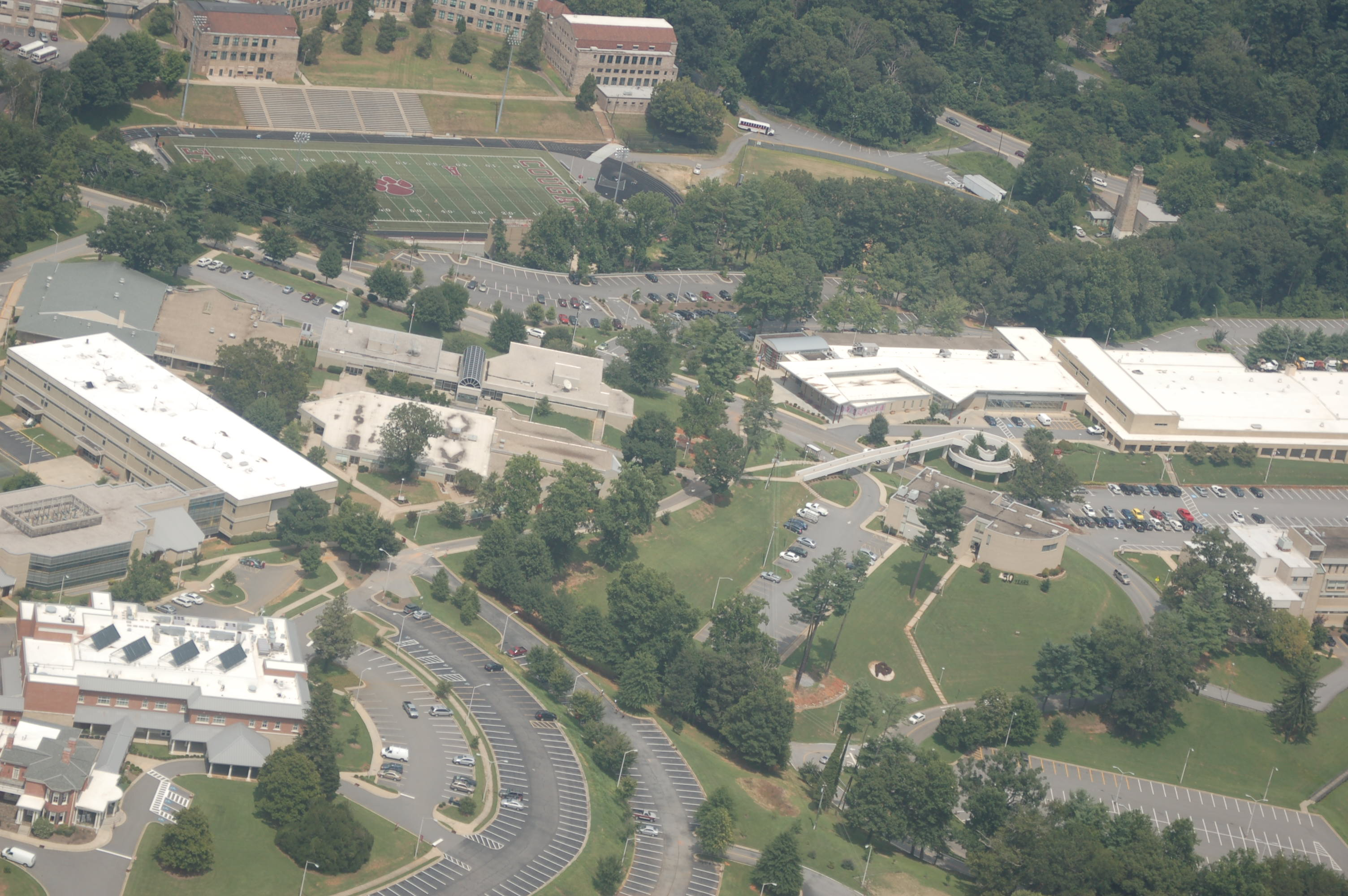 Aerial view of the A-B Tech Main Campus